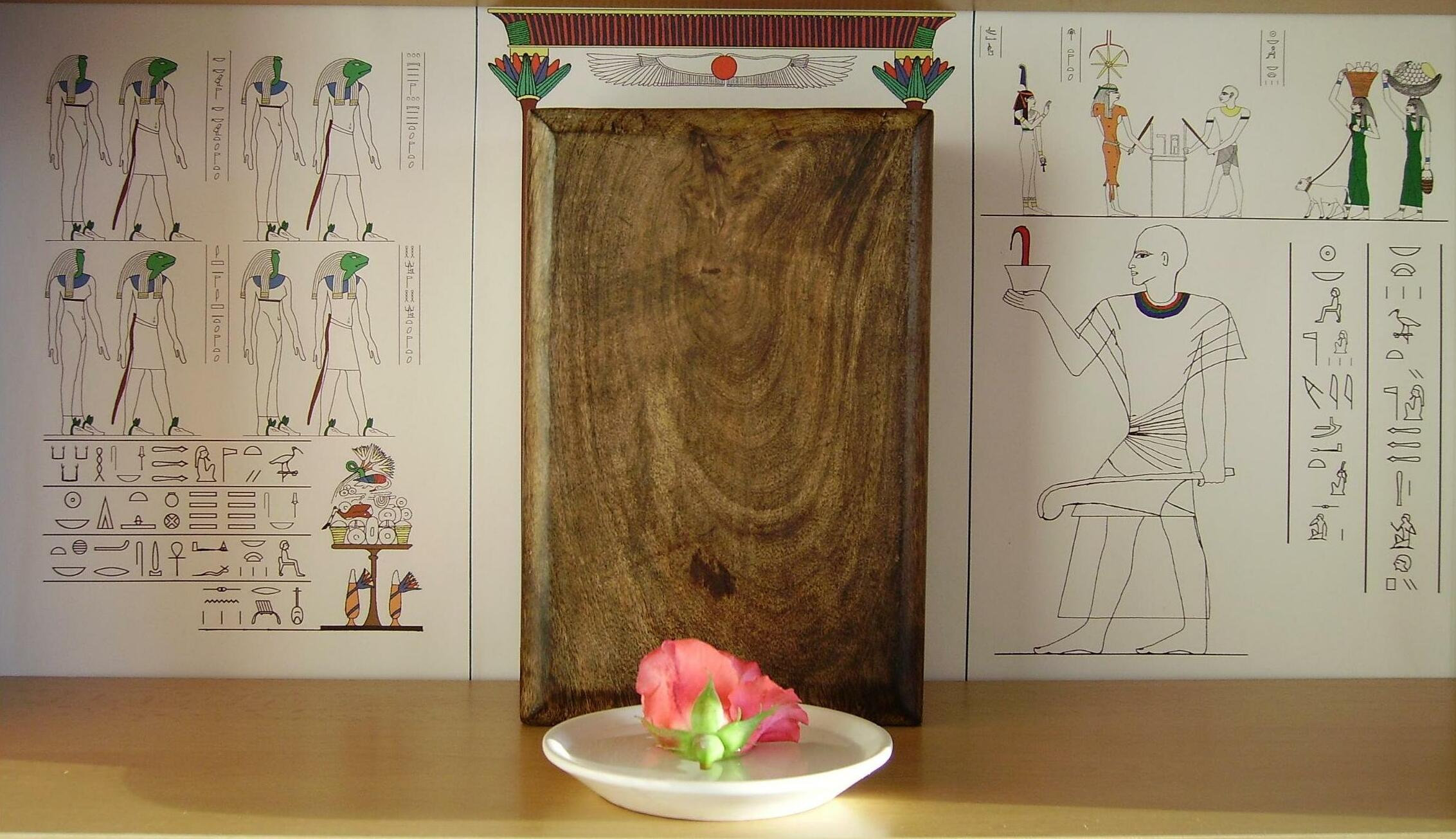 Kemetic house shrine of Thot.